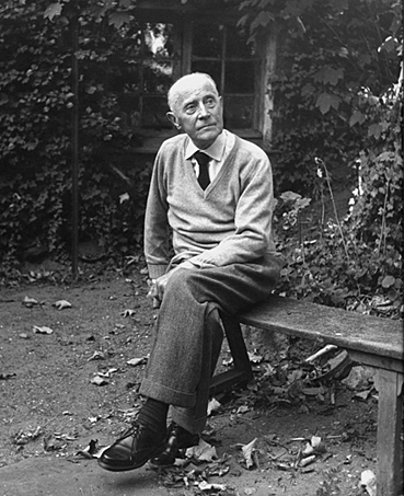 Villon Jacques